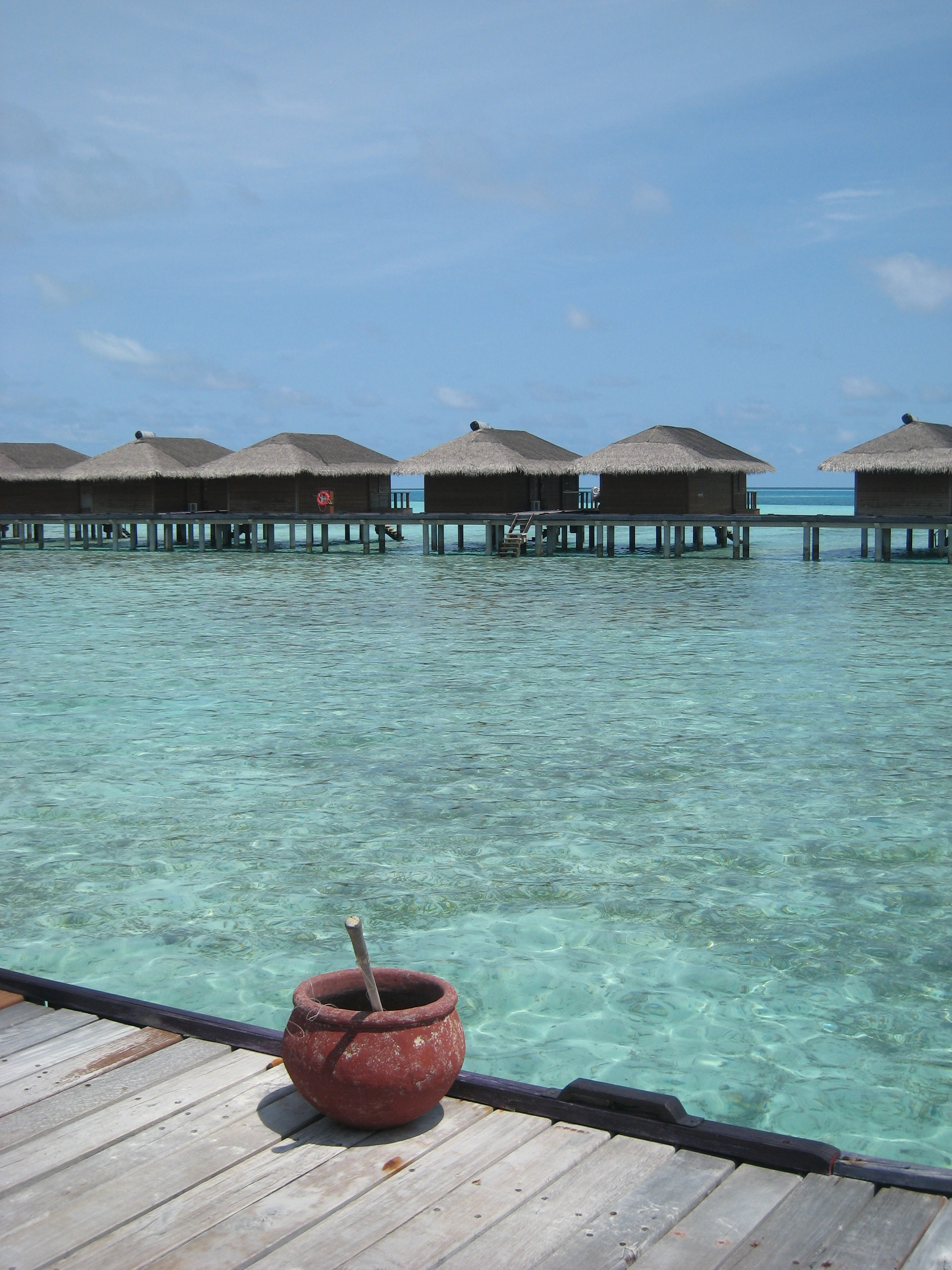 Medhufushi Island Resort, Meemu (Maldives).